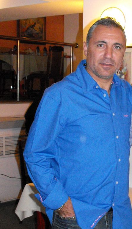 Bulgarian former soccer player and coach Hristo Stoichkov.